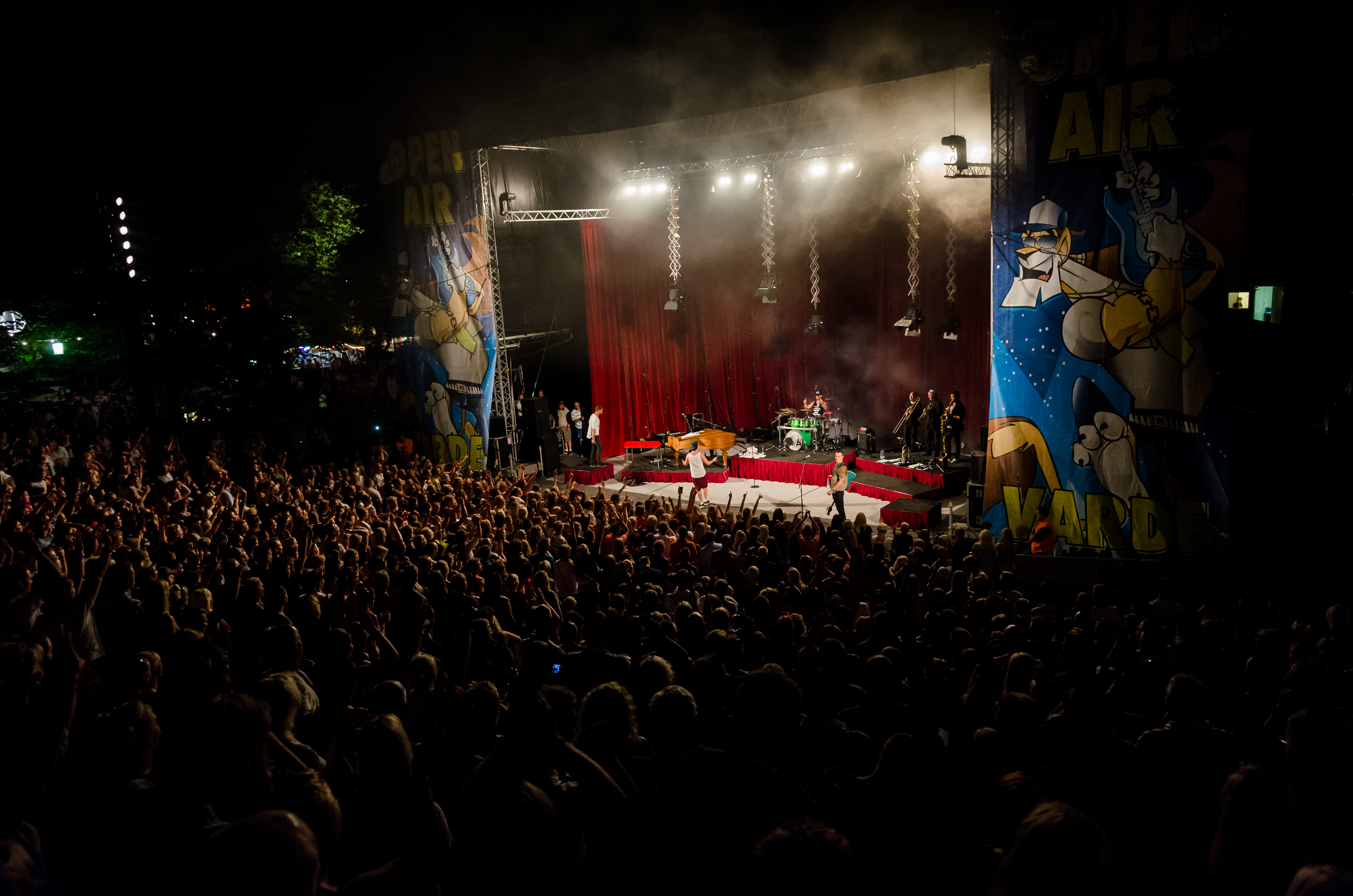 A picture from the musicfestival "Varde Open Air"